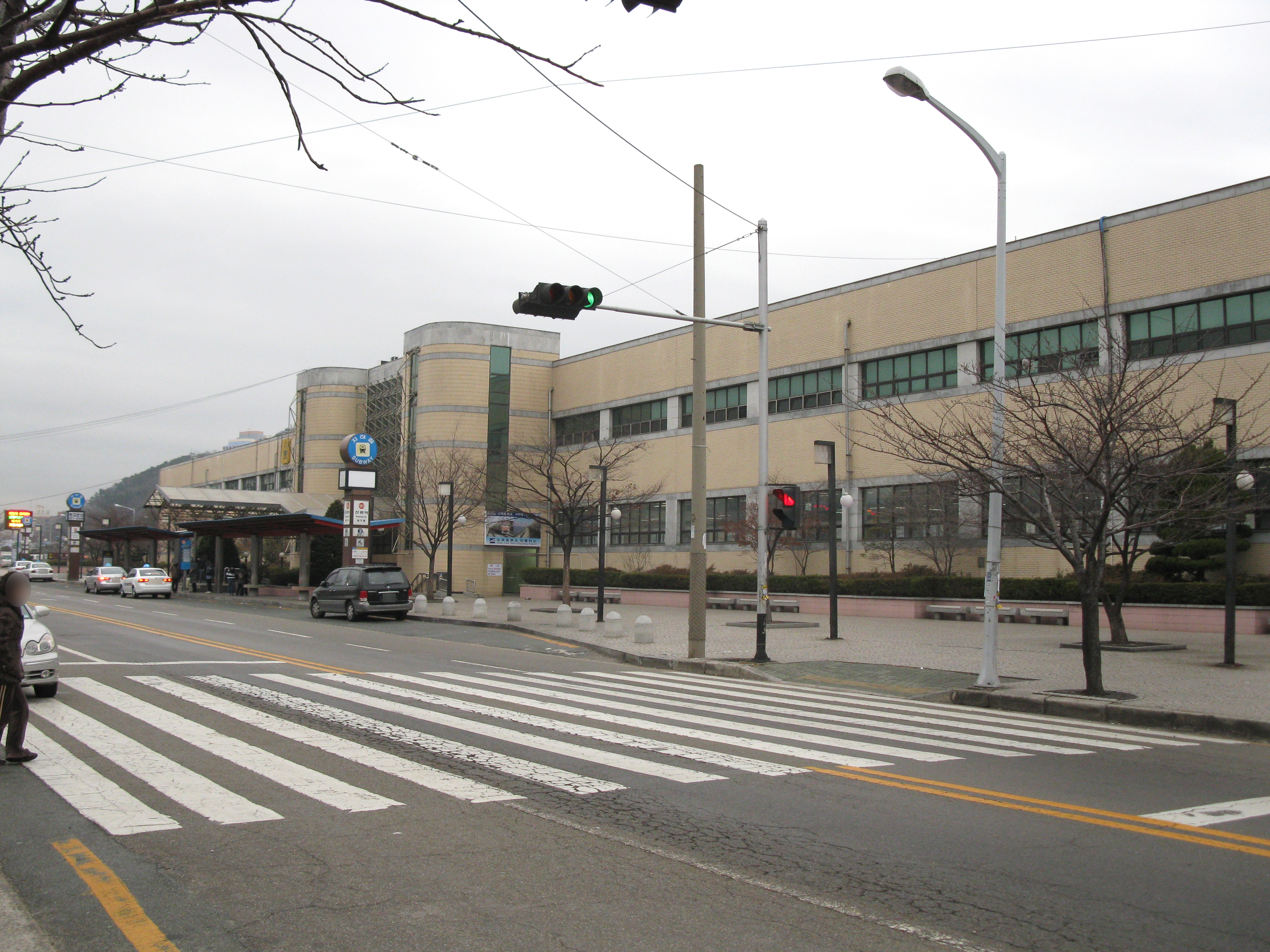 The building of Sinpyeong Station on the Busan Subway Line 1 in Saha-gu, Busan, Republic of Korea(South Korea)